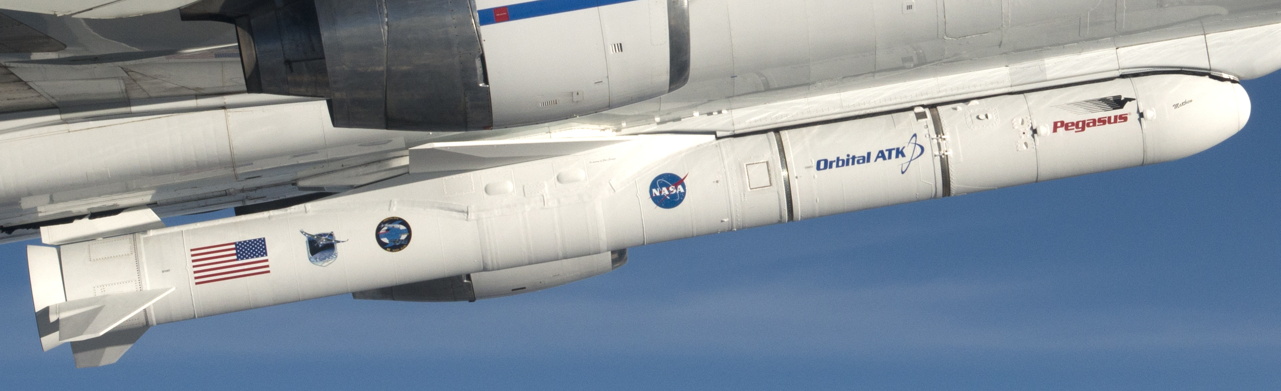 Photographed from the F-18 pathfinder aircraft, the Orbital ATK L-1011 Stargazer aircraft is seen flying over the Atlantic Ocean offshore from Daytona Beach, Florida. Attached beneath the aircraft is the Pegasus XL rocket with eight Cyclone Global Navigation Satellite System, or CYGNSS, spacecraft. The CYGNSS satellites will make frequent and accurate measurements of ocean surface winds throughout the life cycle of tropical storms and hurricanes. The data that CYGNSS provides will enable scientists to probe key air-sea interaction processes that take place near the core of storms, which are rapidly changing and play a crucial role in the beginning and intensification of hurricanes.